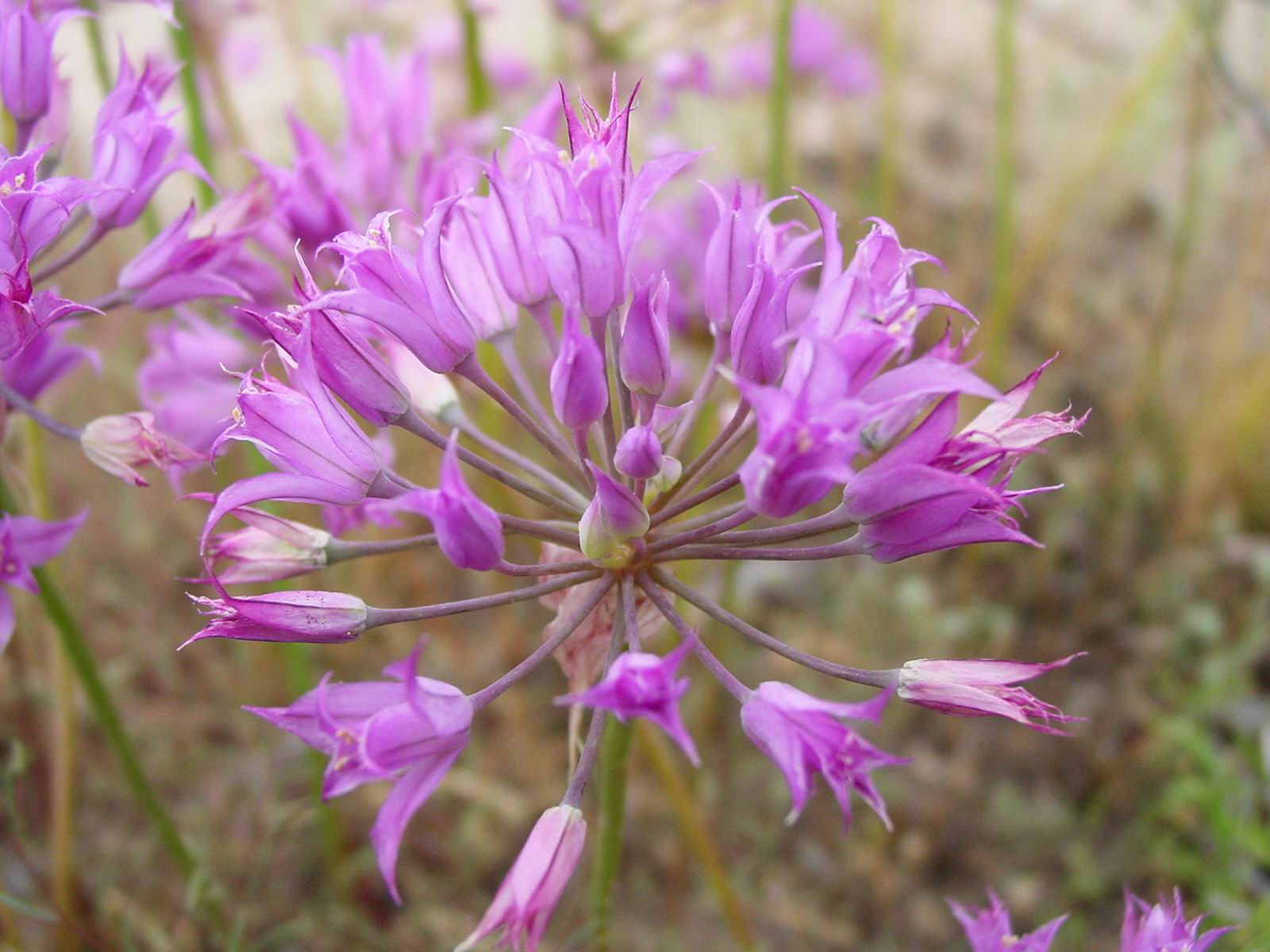 Allium acuminatum — tapertip onion, Hooker's onion. City of Rocks National Reserve, Idaho, USA.